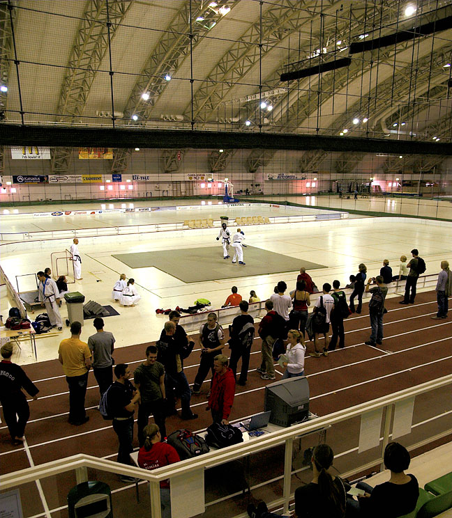 Taekwondo Demo at Kuopio-halli, Kuopio, Finland. Event: Poltetta Puntissa 2006 (Student Union of University of Kuopio & Student Union of Savonia University of Applied Sciences Joint Athletics Day)